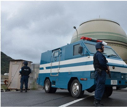 Armed AFS officers guard a road near a building.